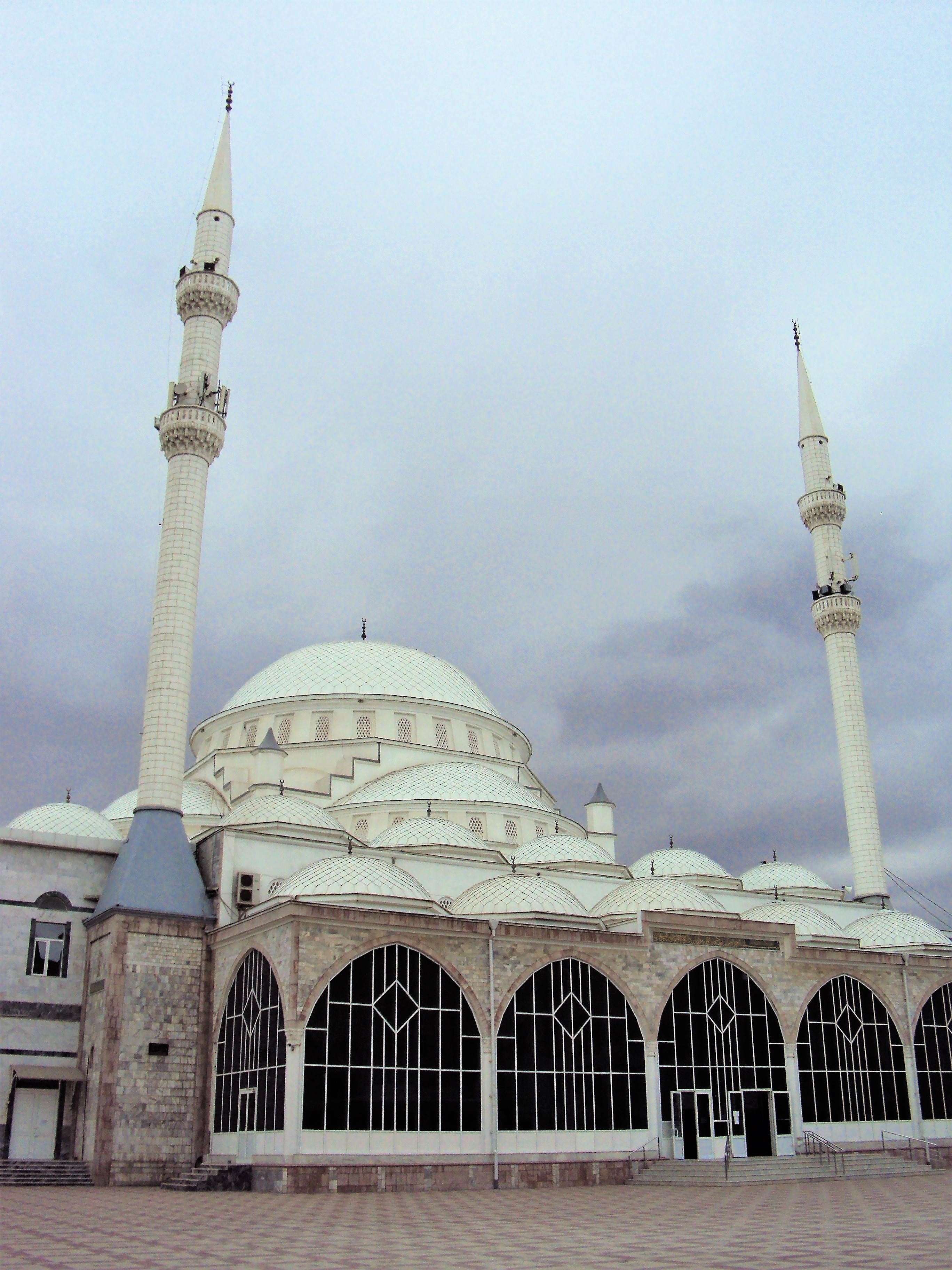 Central mosque of Makhachkala - Dagestan Republic (Russian Federation)